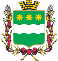 Blagoveshchensk (Amur oblat), coat of arms